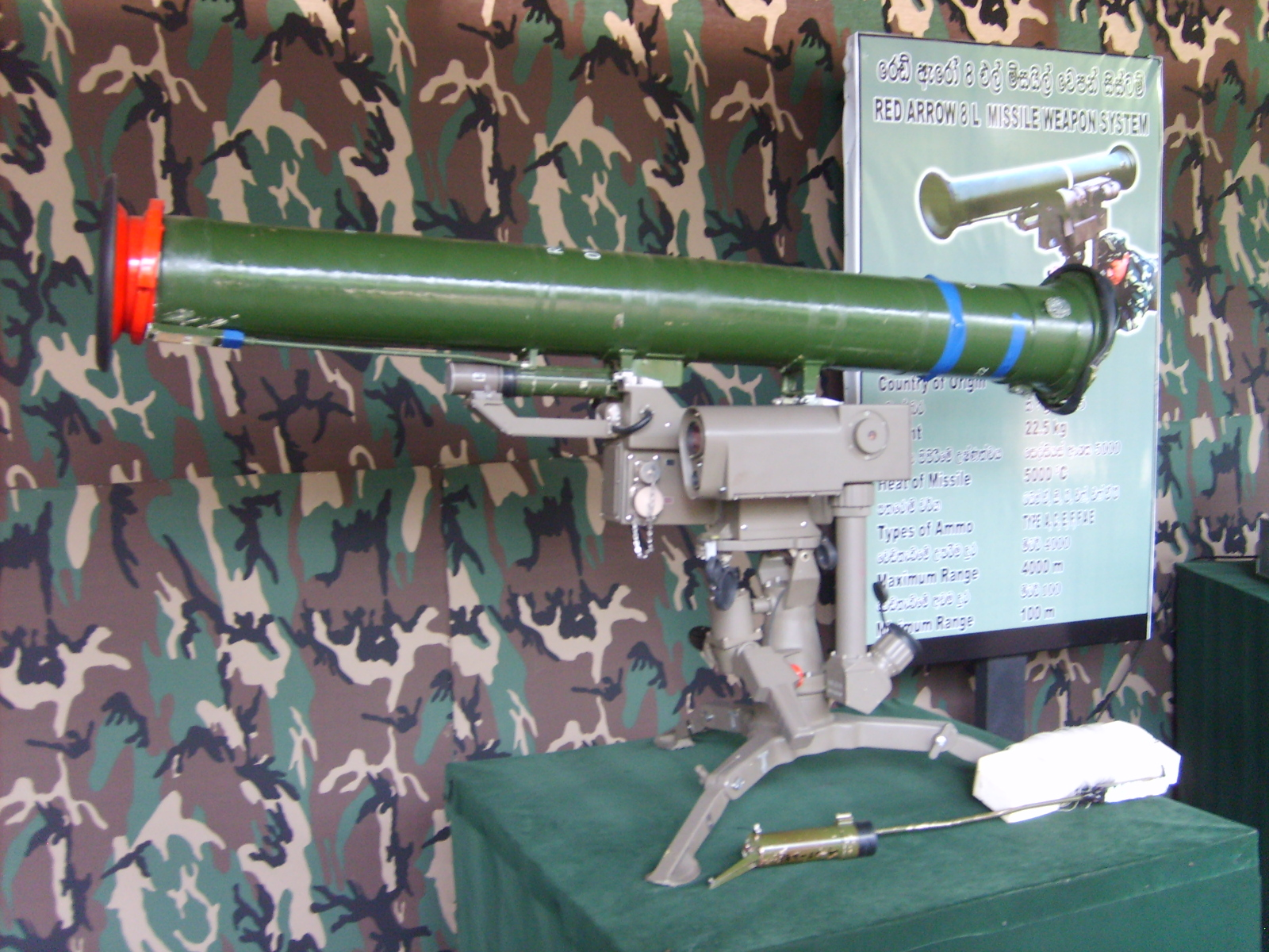 A Red Arrow 8L missile of the Sri Lanka Army, on display at the Army 60th Anniversary Exhibition